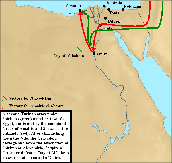 Map showing third invasion of Egypt by Crusaders